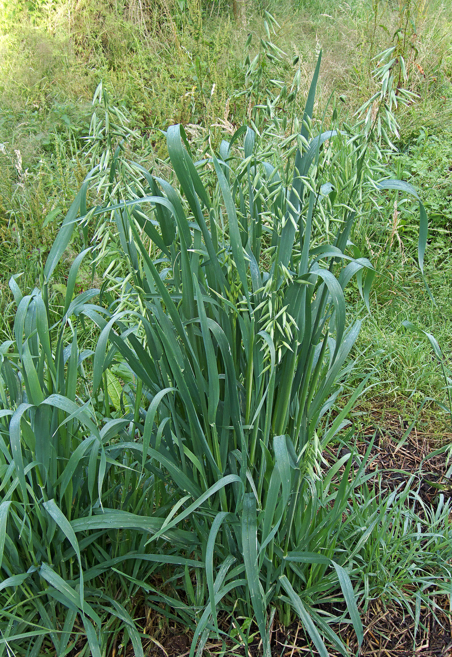 Avena sativa black oat plant